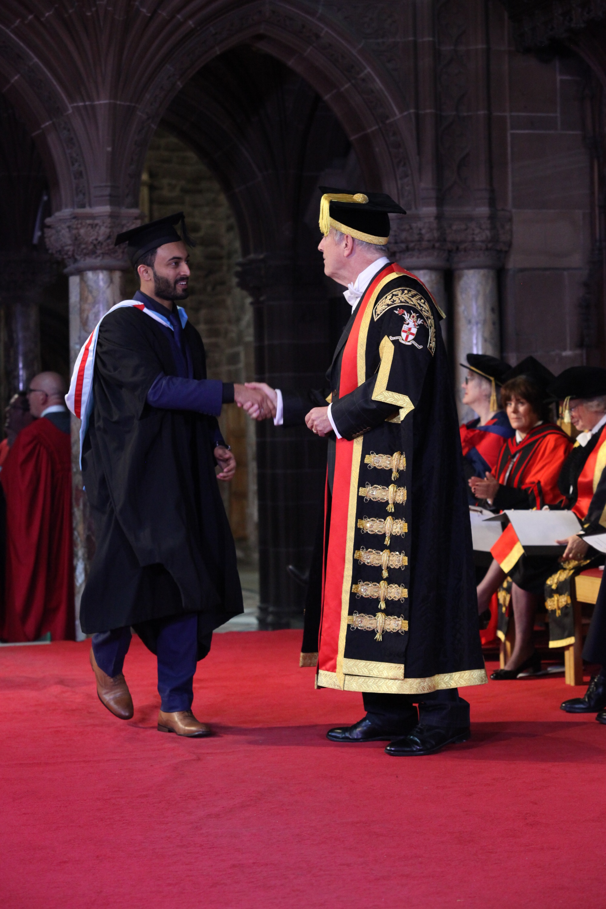 Shaheel receiving the MBA honour from Gyles Brandreth, Chancellor of the University of Chester, UK